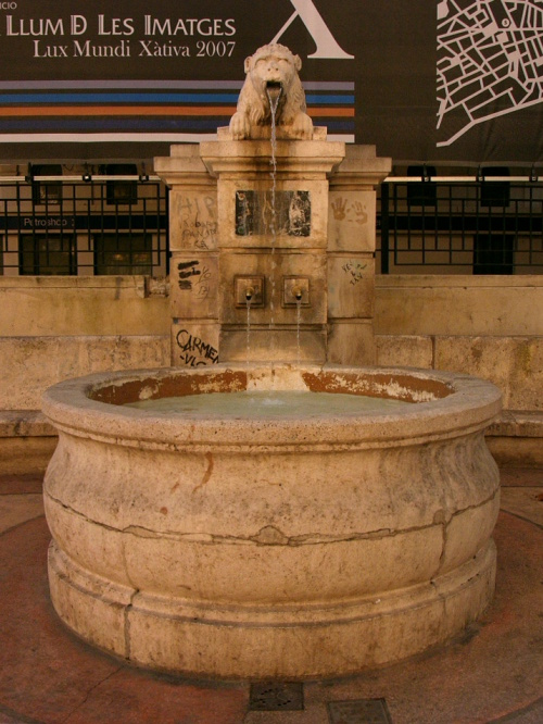 «lion fountain» in Xàtiva's main avenue, with a banner for La llum de les imatges exhibition in 2007